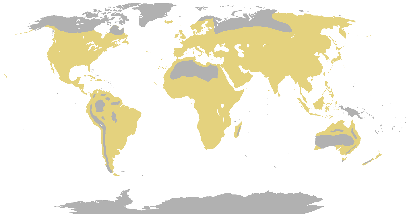 Map showing the range of the Cow and allies.